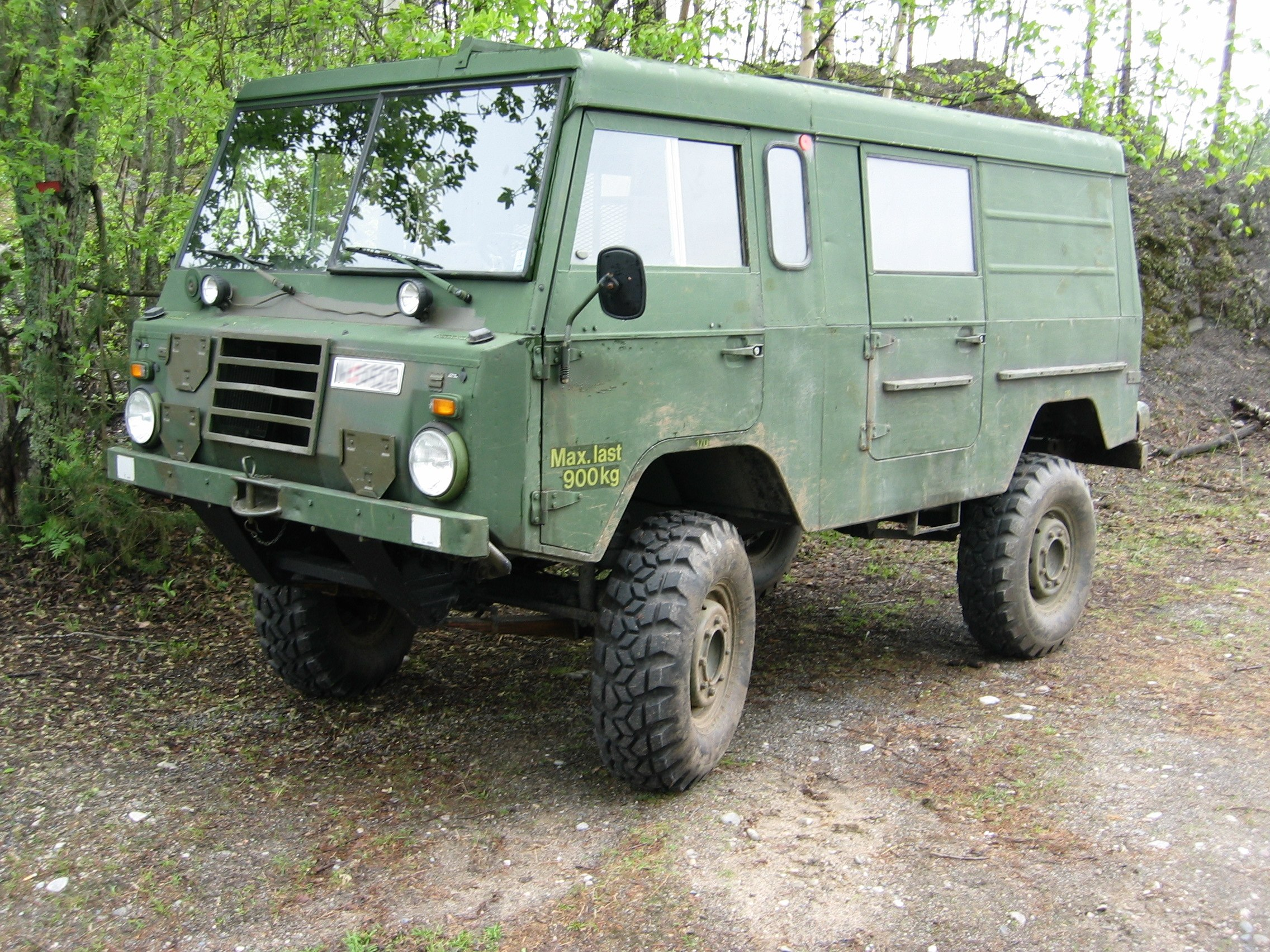 A Volvo C303 (Tbg 11) demobbed and on civilian hands.